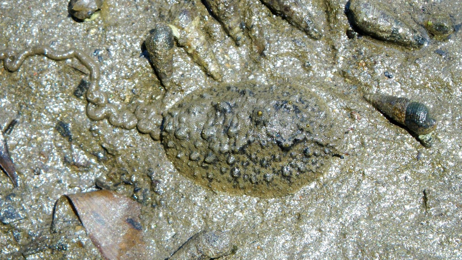 Onchidium hongkongensis Britton, 1984